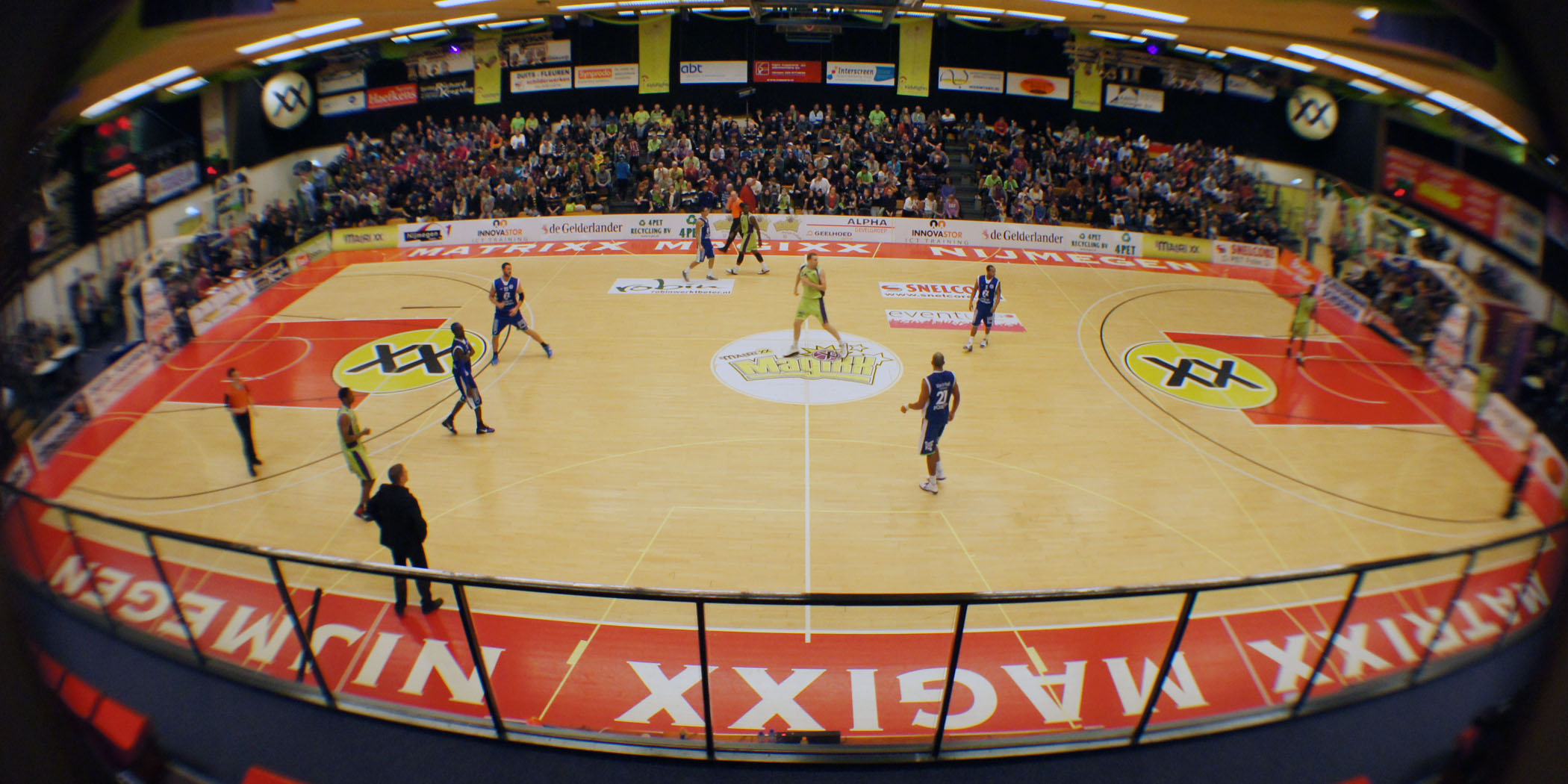 Photograph taken during the Eredivisie match between Magixx Playing for KidsRights and Zorg en Zekerheid Leiden.